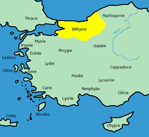 Map of Bithynia, derivative work since [1]